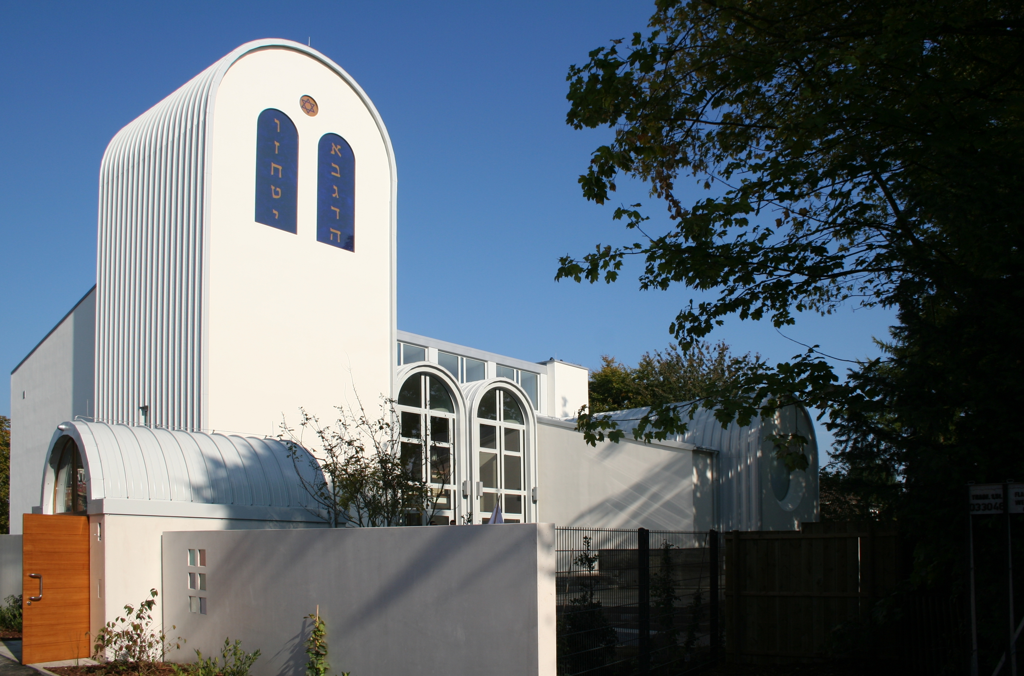 New Synagogue in Bielefeld (Detmolder Straße)